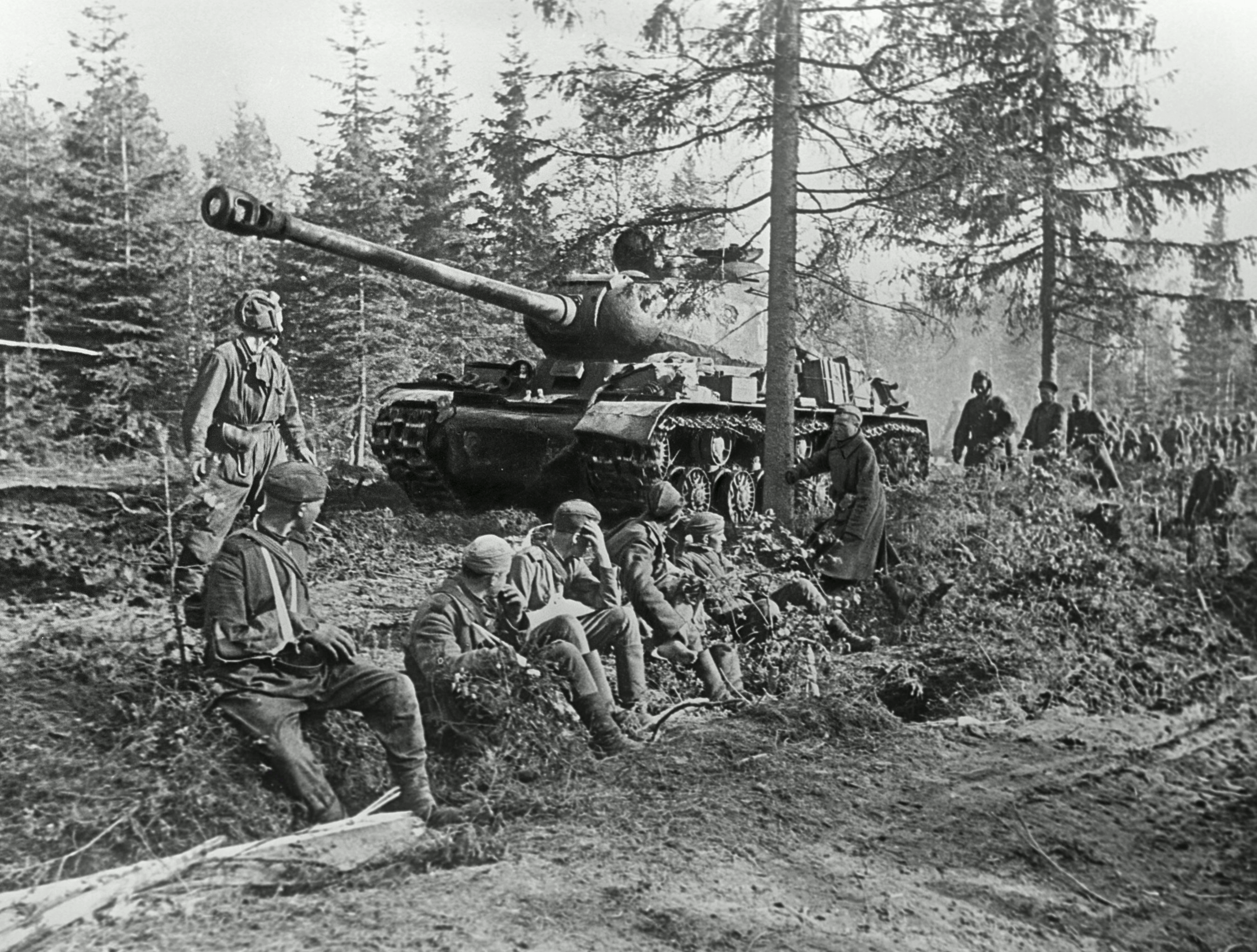 IS-2 Tank in the Vyborg–Petrozavodsk Offensive